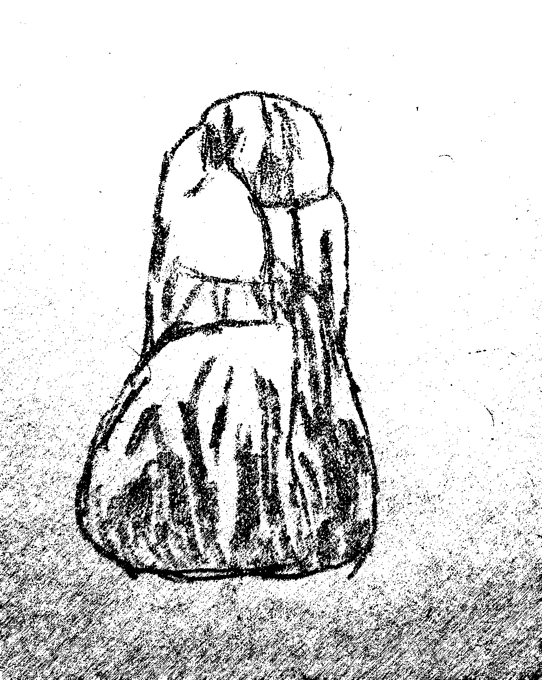 tooth of yuanmou man (drawn by myself)